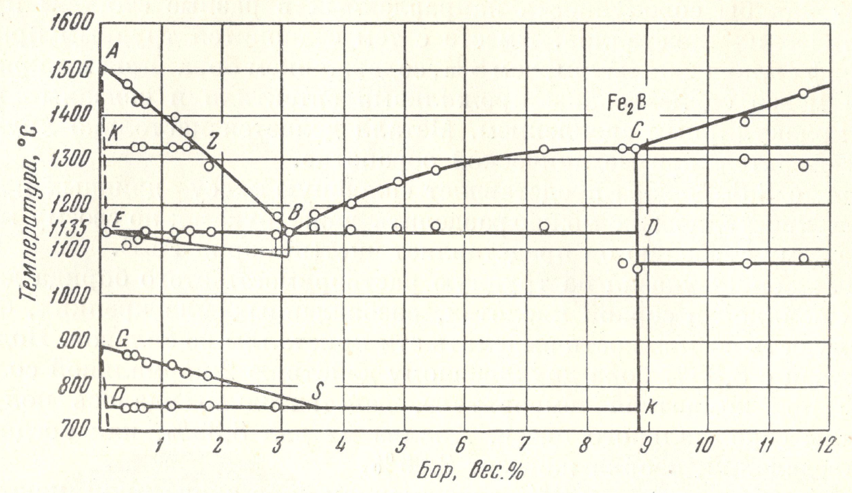 The phase diagram of the boron-iron from the paper by Nikolai Tchizhevsky et al published in 1915: Чижевский Н., Гердт А., Михайловский И. Системы железо-бор и железо-никель-бор. Журнал Русского металлургического общества, 1915, № 4, ч.1, стр. 533-559 (russian).